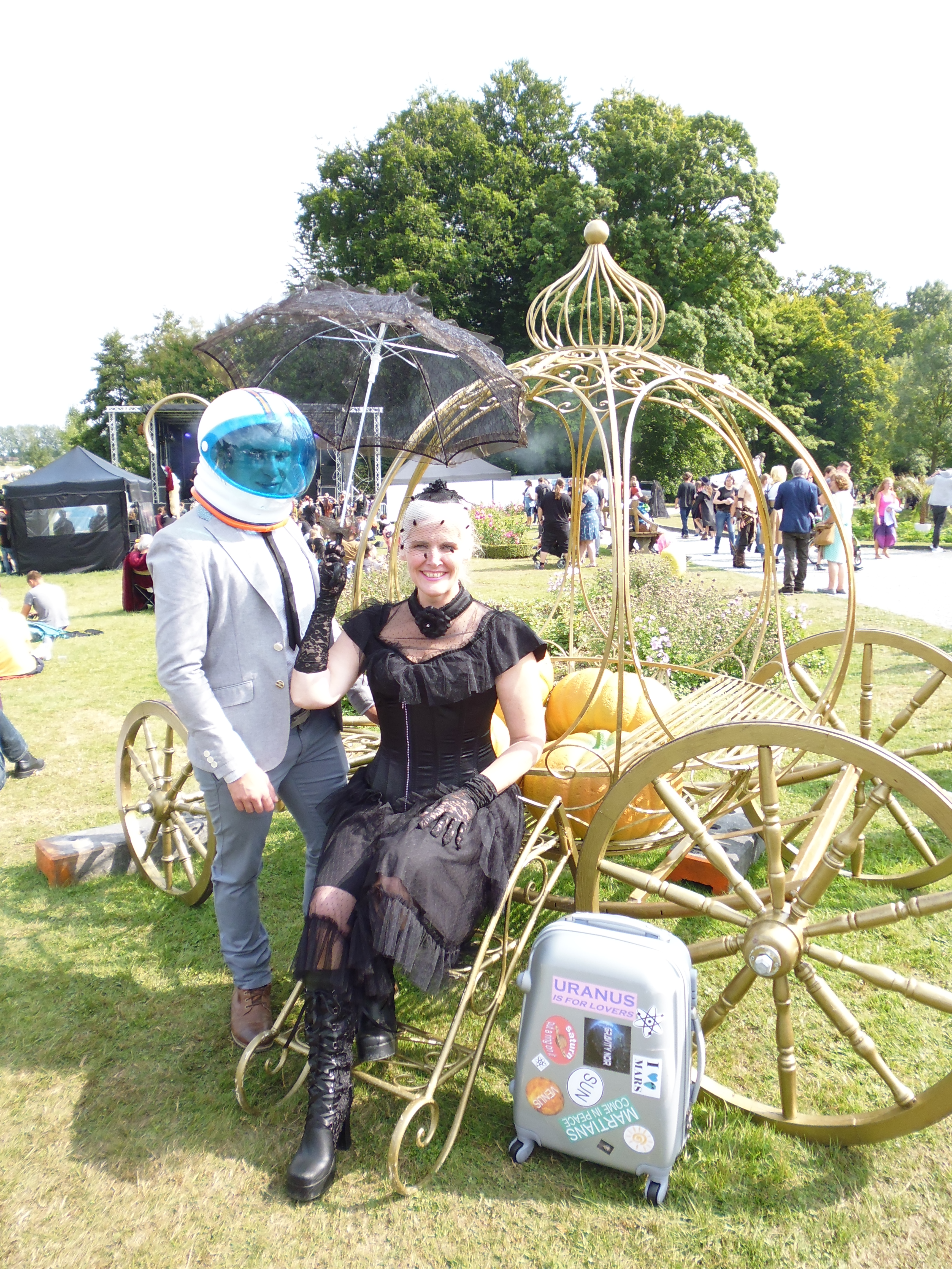 Gravity Noir band members Adrian Cogen and Suzanne Vuegen. Photo taken during the making of "Into a new world" (Music Video Clip).